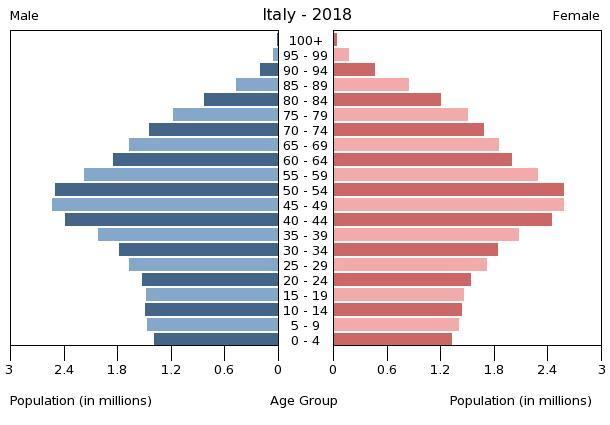 The population pyramid of Italy illustrates the age and sex structure of population and may provide insights about political and social stability, as well as economic development. The population is distributed along the horizontal axis, with males shown on the left and females on the right. The male and female populations are broken down into 5-year age groups represented as horizontal bars along the vertical axis, with the youngest age groups at the bottom and the oldest at the top. The shape of the population pyramid gradually evolves over time based on fertility, mortality, and international migration trends.